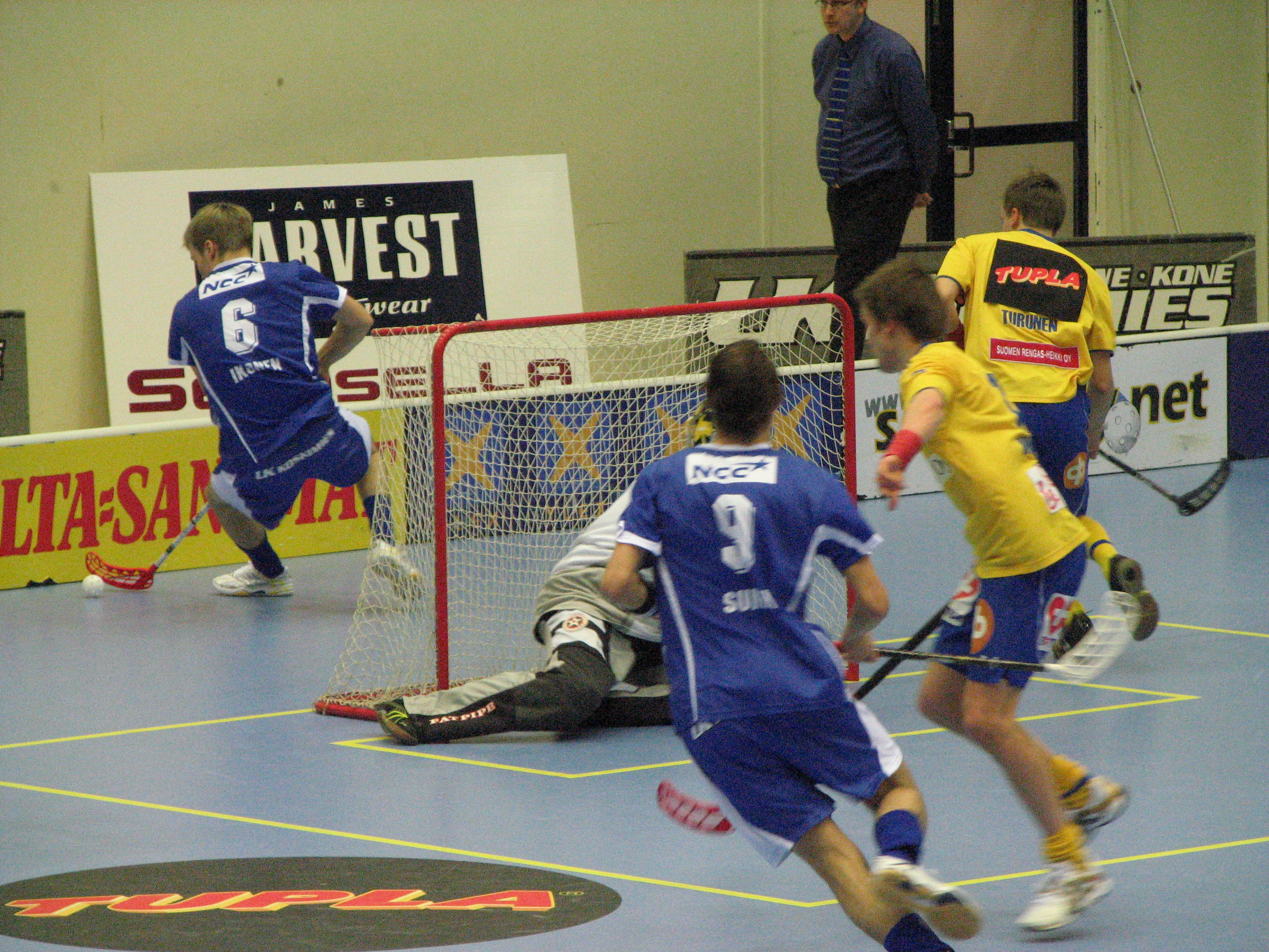 A floorball match